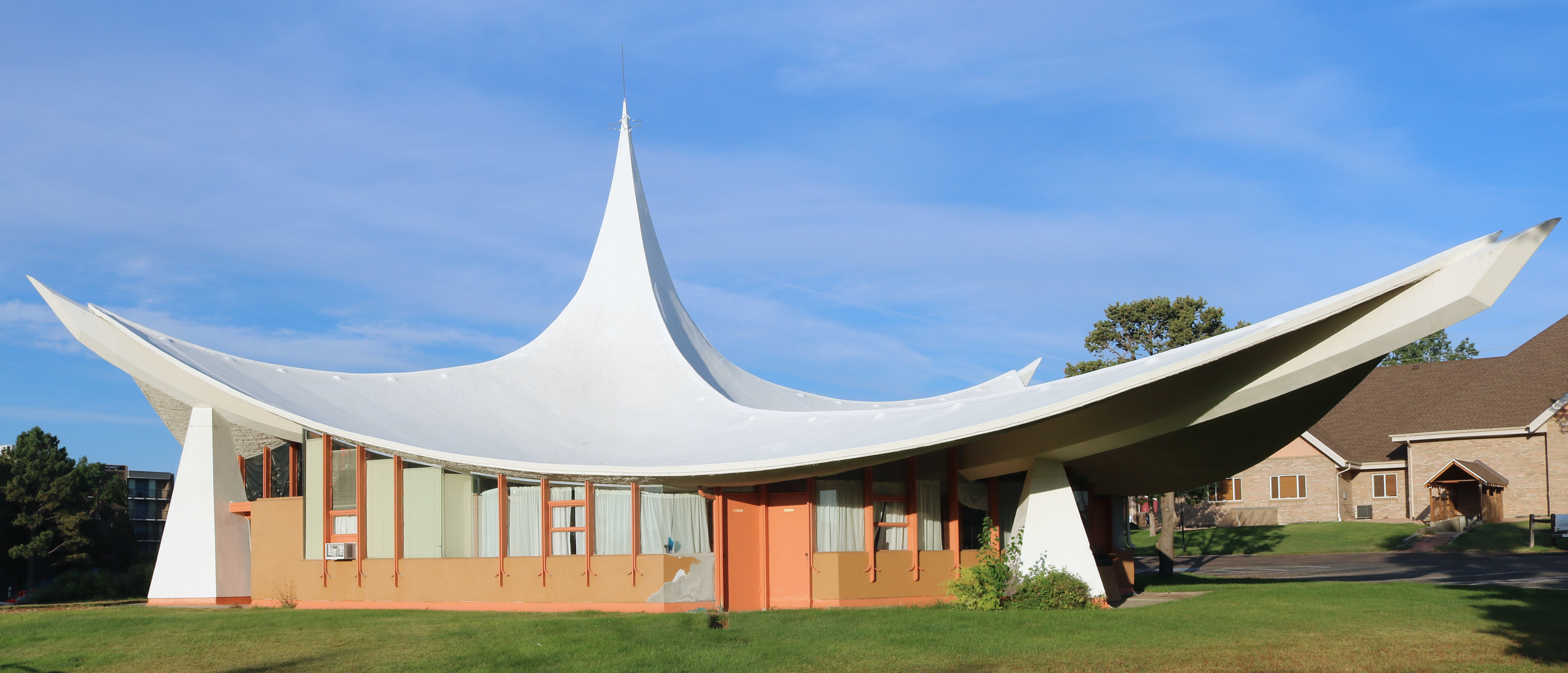 St. Stephen's Lutheran Church, located at 10828 Huron Street in Northglenn, Colorado. The property is listed on the National Register of Historic Places. Built in 1964, the church is an example of neo-expressionist design. The architect was Charles A. Haertling.